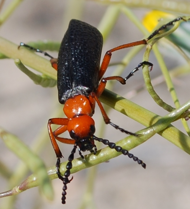 Desert Blister Beetle (Lytta magister), in the Anza-Borrego State Park, California